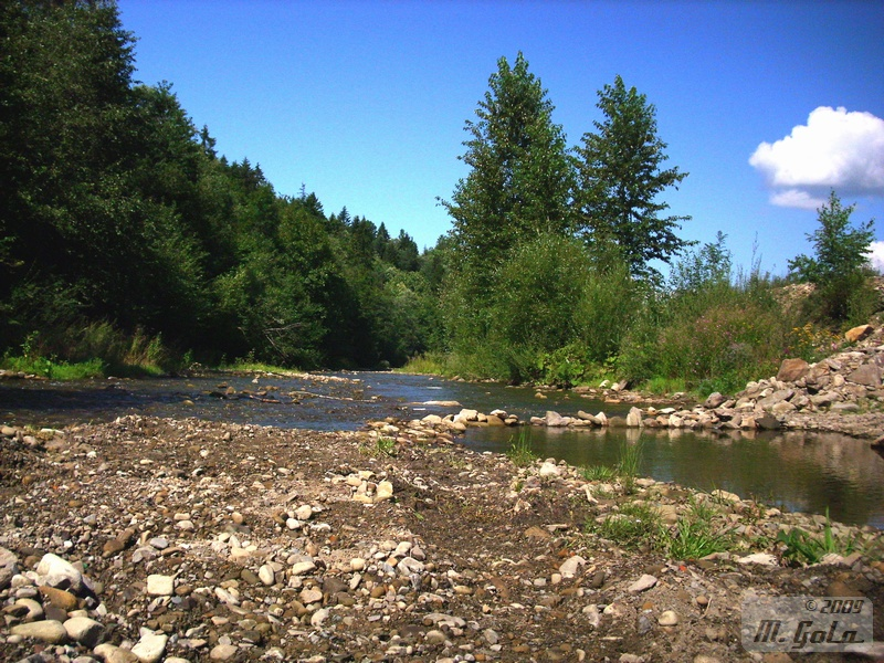 river Koszarawa in Przyborów